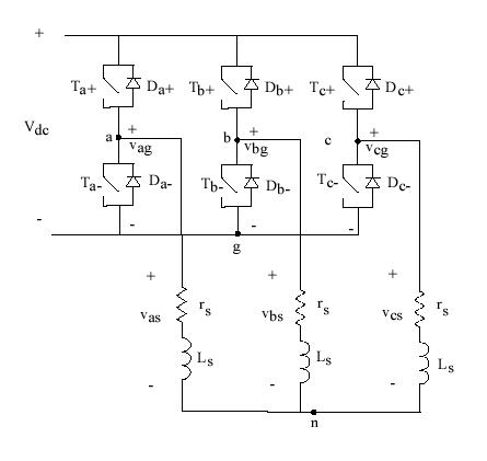 circuito PWM